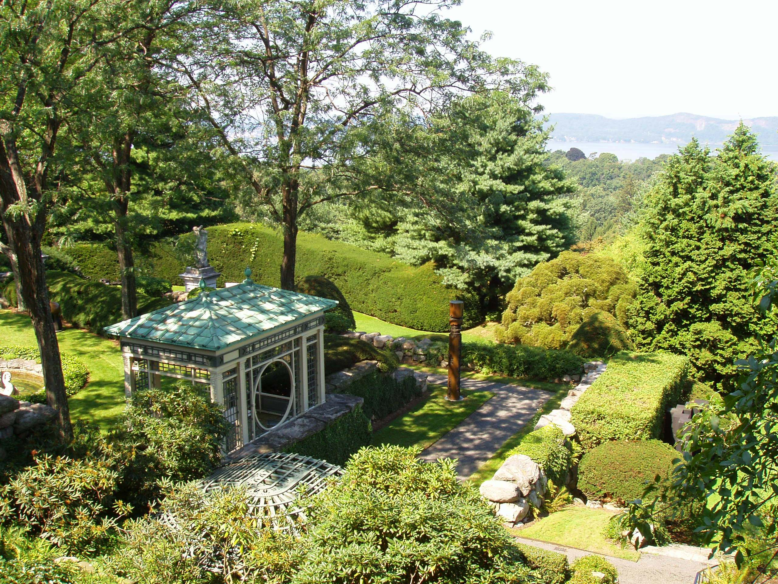 Kykuit, Tarrytown, New York - one of many gardens, with distant view of Hudson River. This garden is behind the house. Photograph taken by me, September 2005.